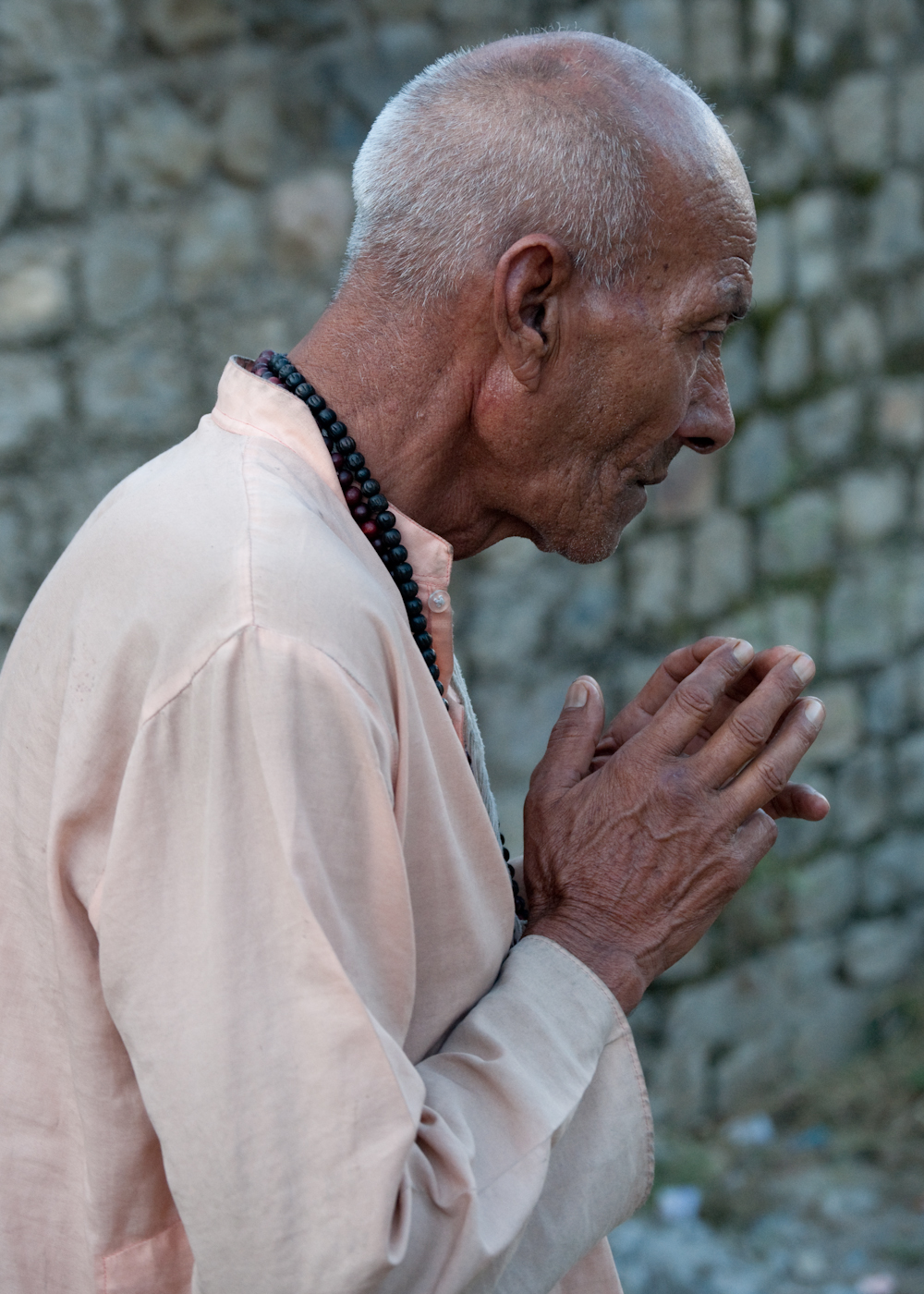 Puja, pooja, prayer pose People of himachal pradesh, a himalayan state in north India